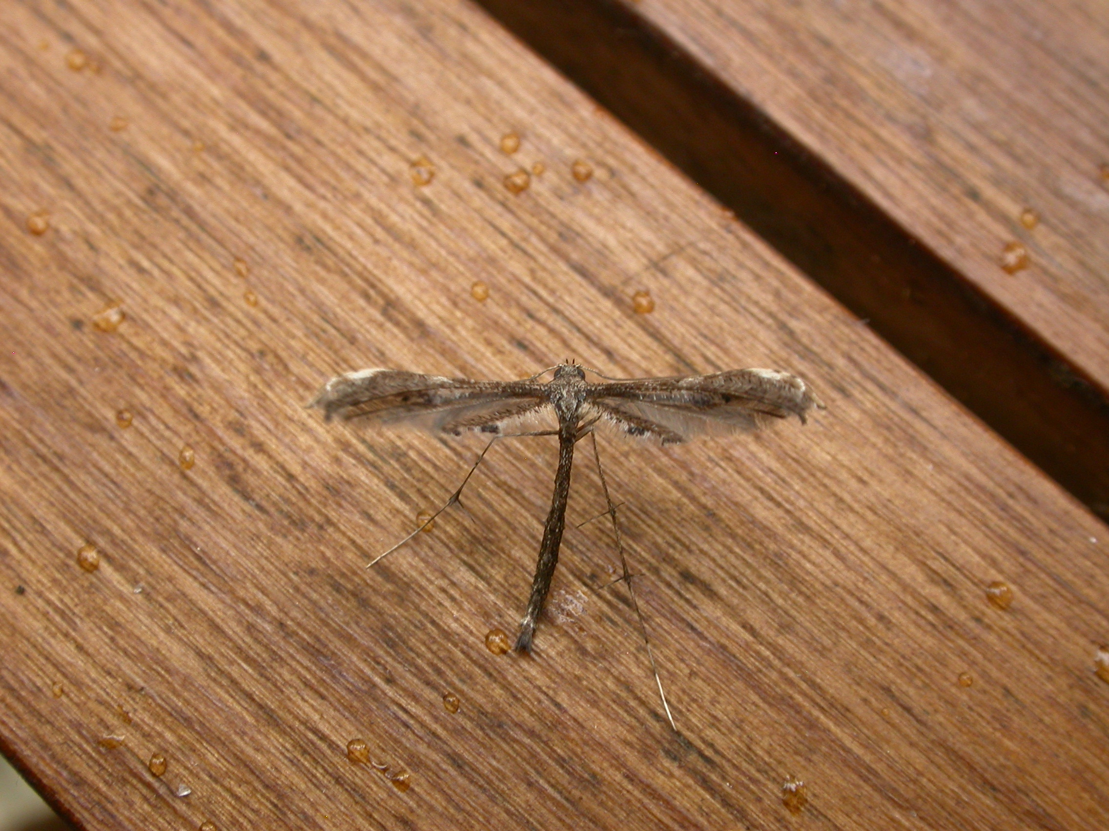 Trichoptilus inclitus T.P. Lucas, 1892, Mission Beach, QLD, 18 December 2011 There is some confusion over the relationship between Trichoptilus inclitus and Tetraschalis arachnodes and whether multiple species are currently mixed under these names - see here.